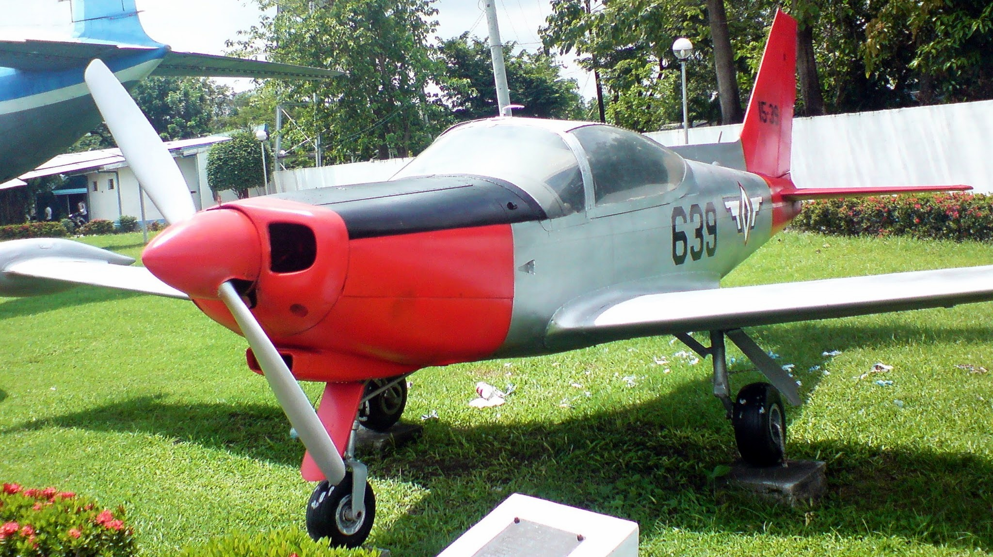 Front-left side view of the Philippine Air Force (PhAF) SF-260 Trainer aircraft, taken at the PhAF Aerospace Museum in Pasay City, Philippines.